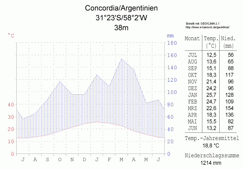 climate chart in the format by Walther and Lieth